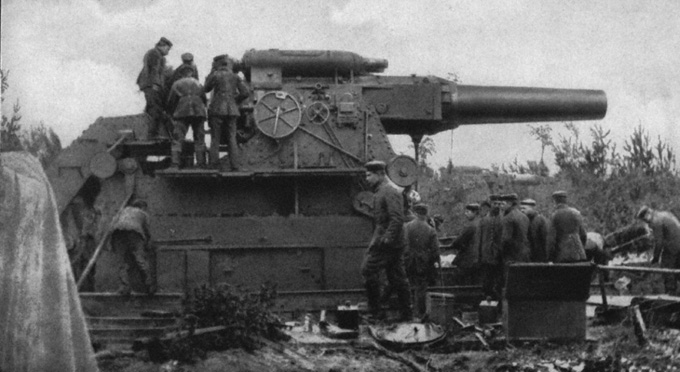 Gamma-gerät cannon in action. This was the railway-transported, concrete-emplaced predecessor to the Big Bertha German 420-mm howitzer of World War I.